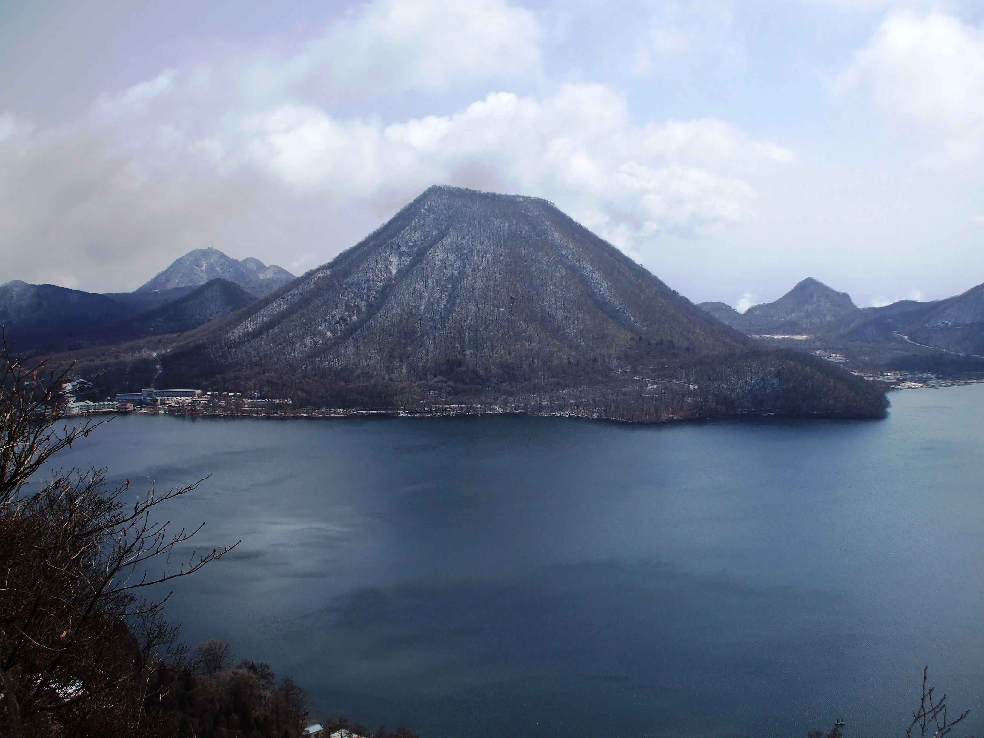 Mount Harunafuji and Lake Haruna from Suzuri Rock on Mount Kamon. A scene of Mount Haruna, Gunma, Japan.